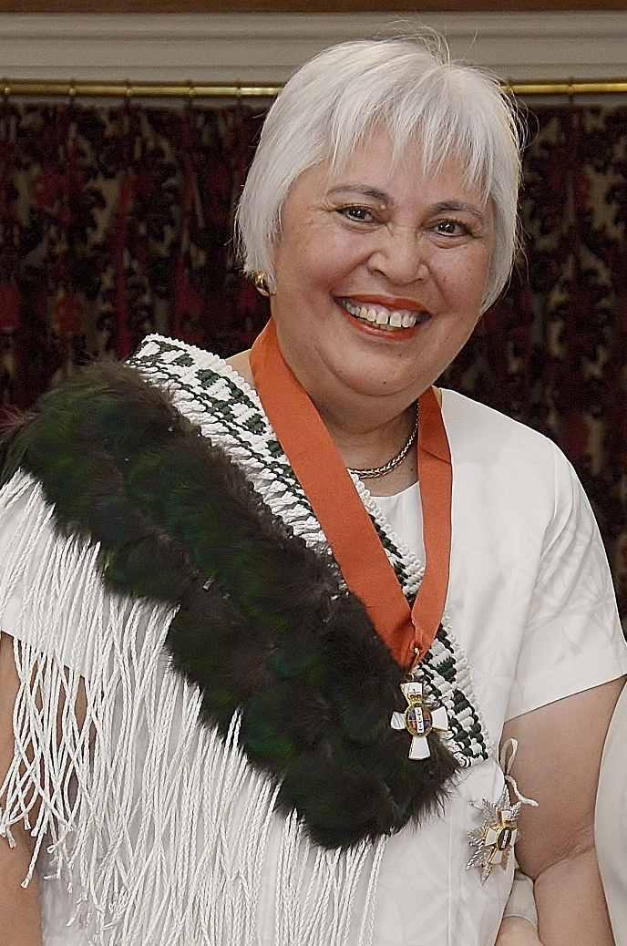 The Honourable Luamanuvao Dame Winnie Laban, of Lower Hutt, DNZM, for services to education and the Pacific community.